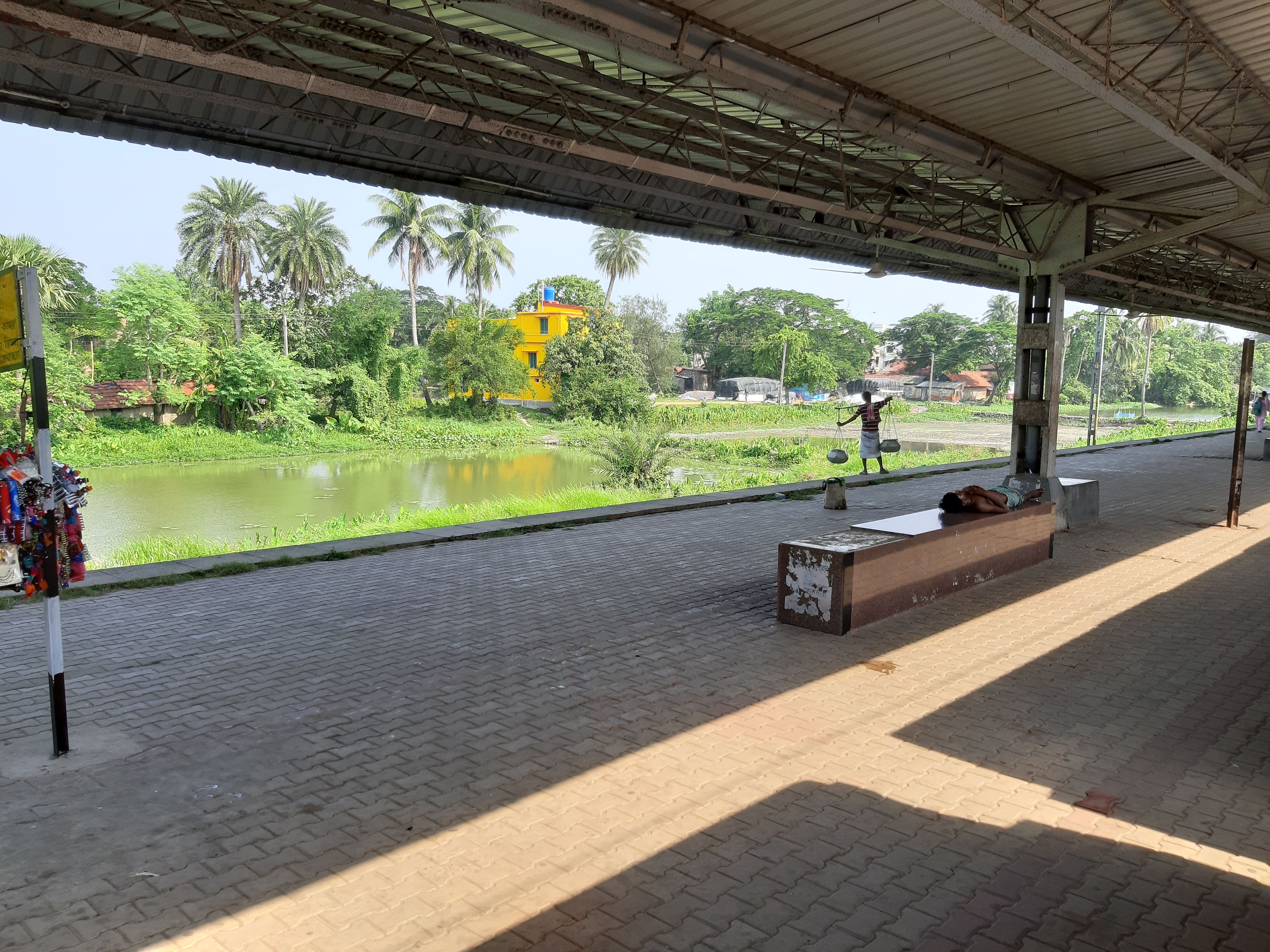 Baruipur to Diamond Harbour Railway Station